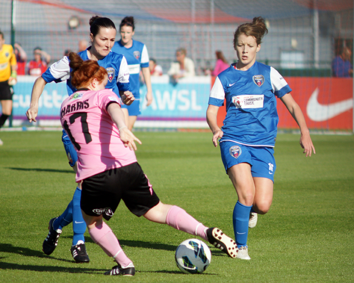 Angharad James playing for Bristol Academy against Lincoln, June 2013, at Stoke Gifford